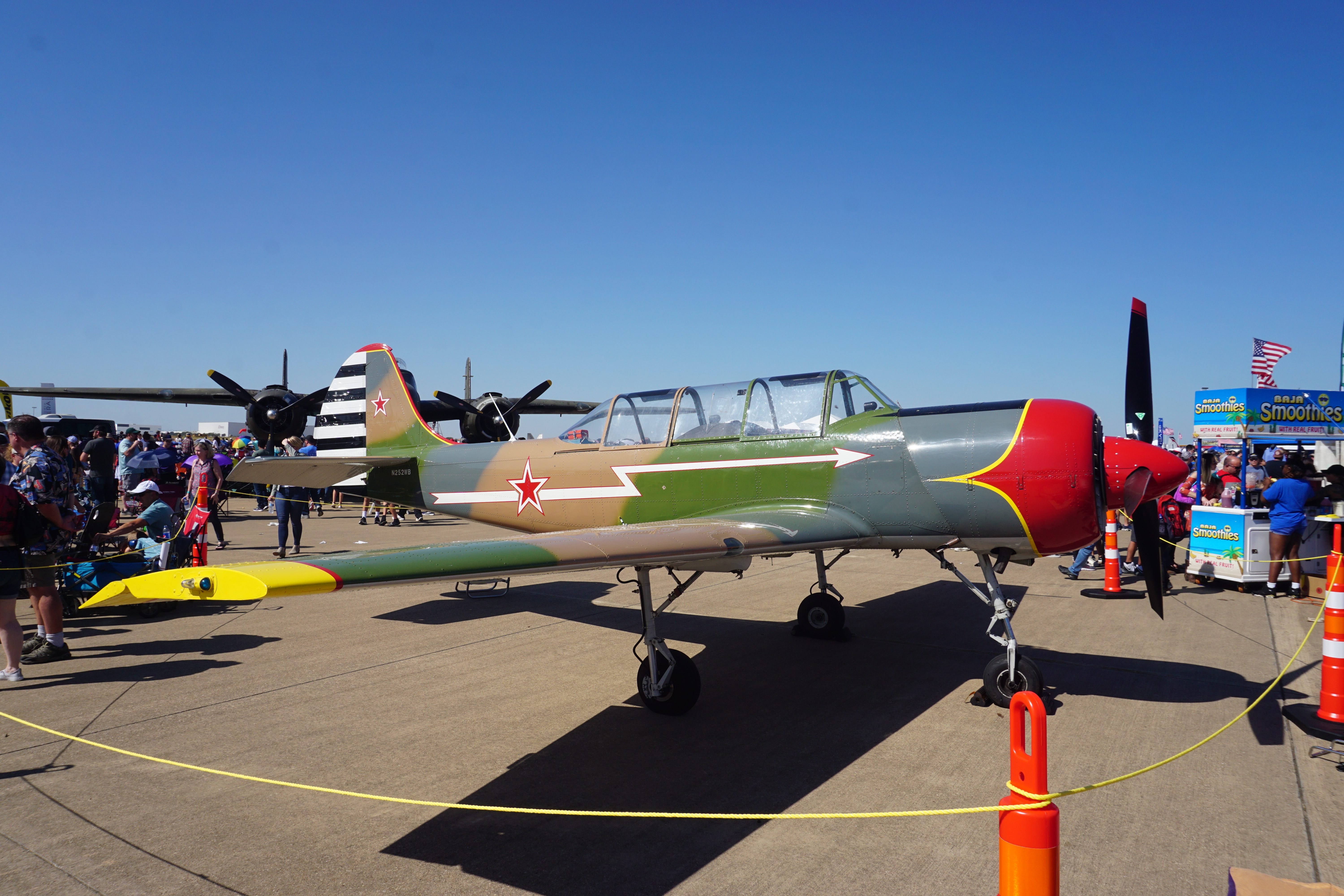 An Aerostar Yak-52 on static display at the 2019 Fort Worth Alliance Air Show at Fort Worth Alliance Airport in Fort Worth, Texas (United States).